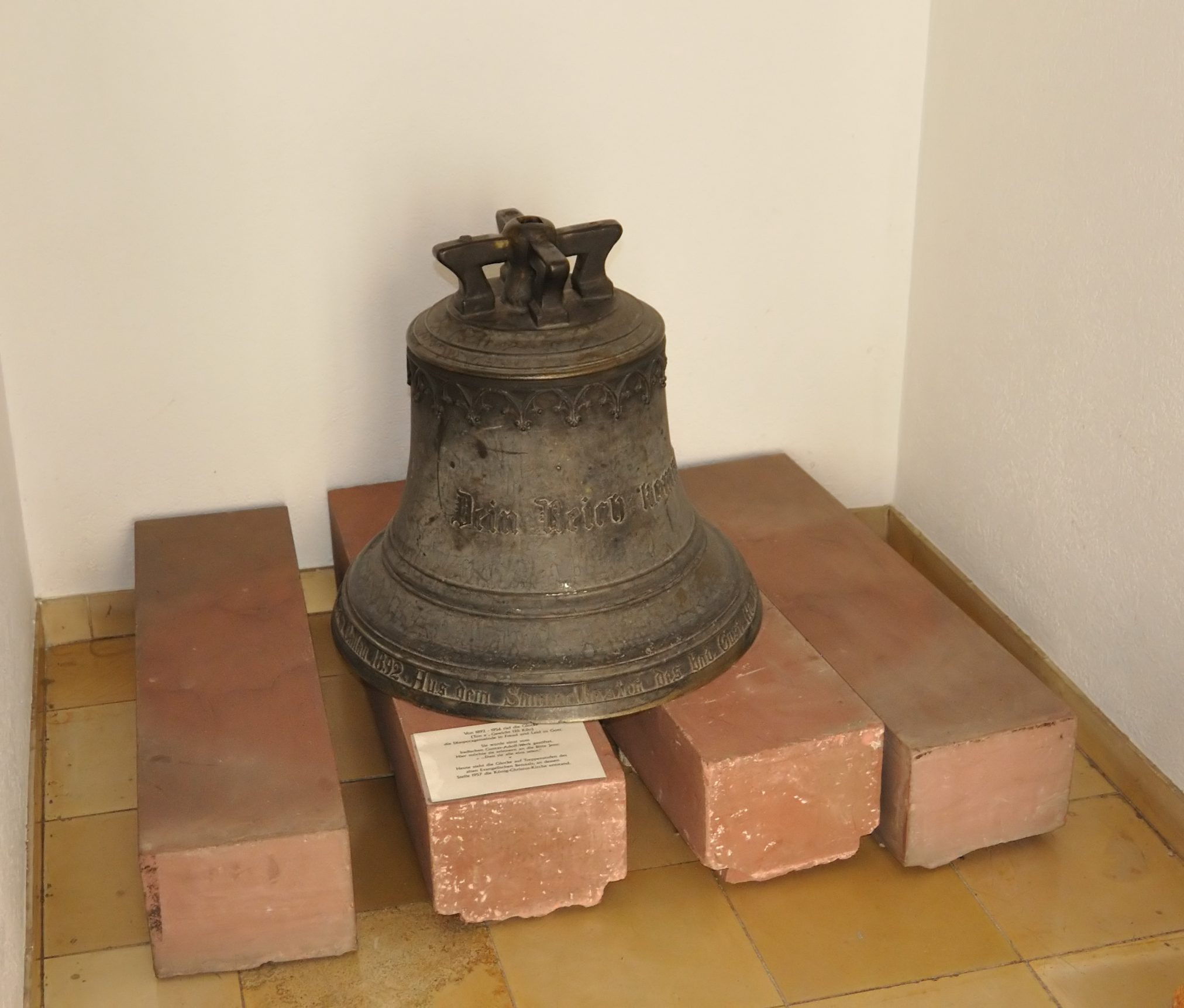 Todtnau: Christ the King churches